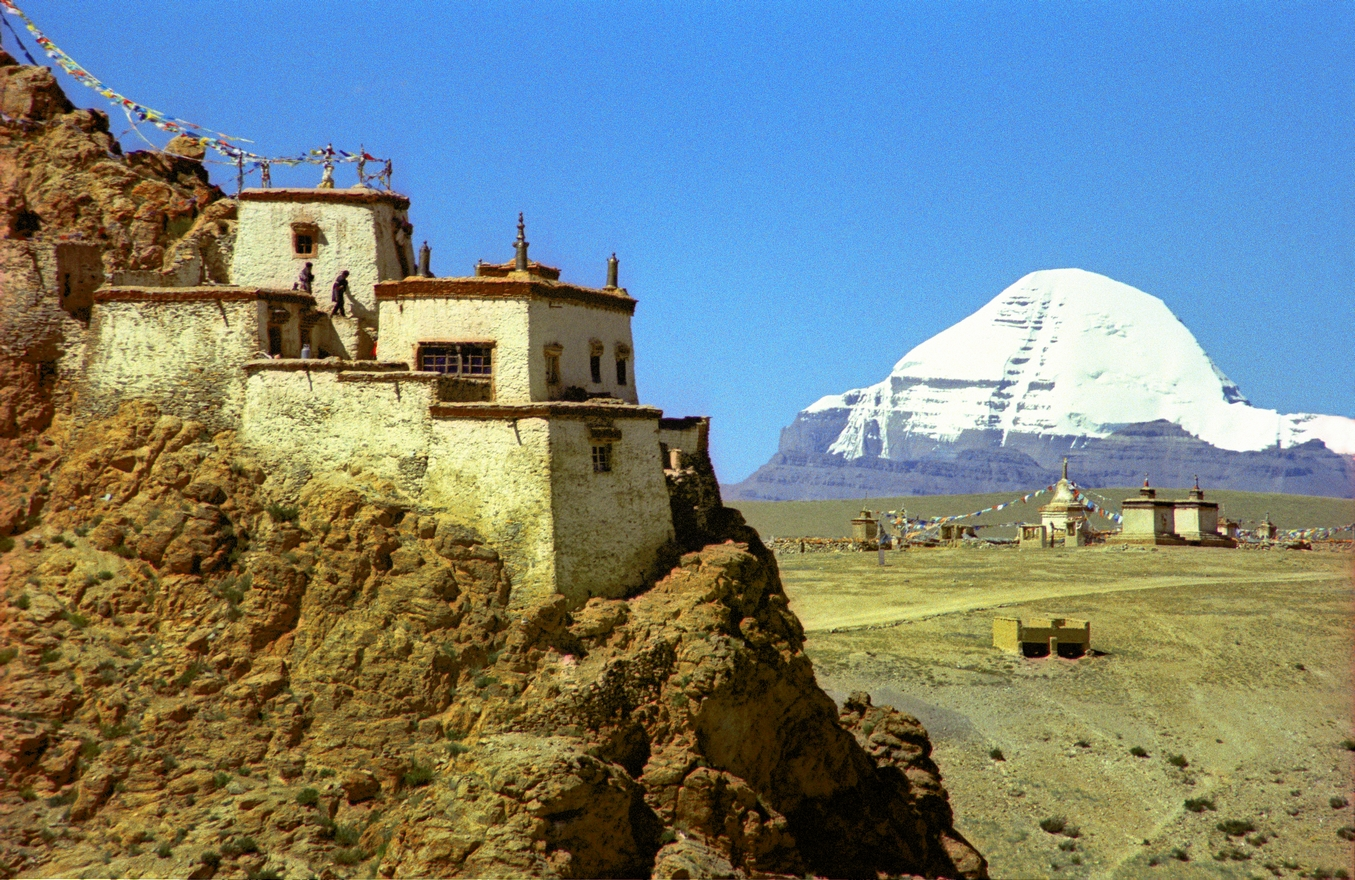 View large on black Chiyu Gompa and Mount Kailash with pilgrims